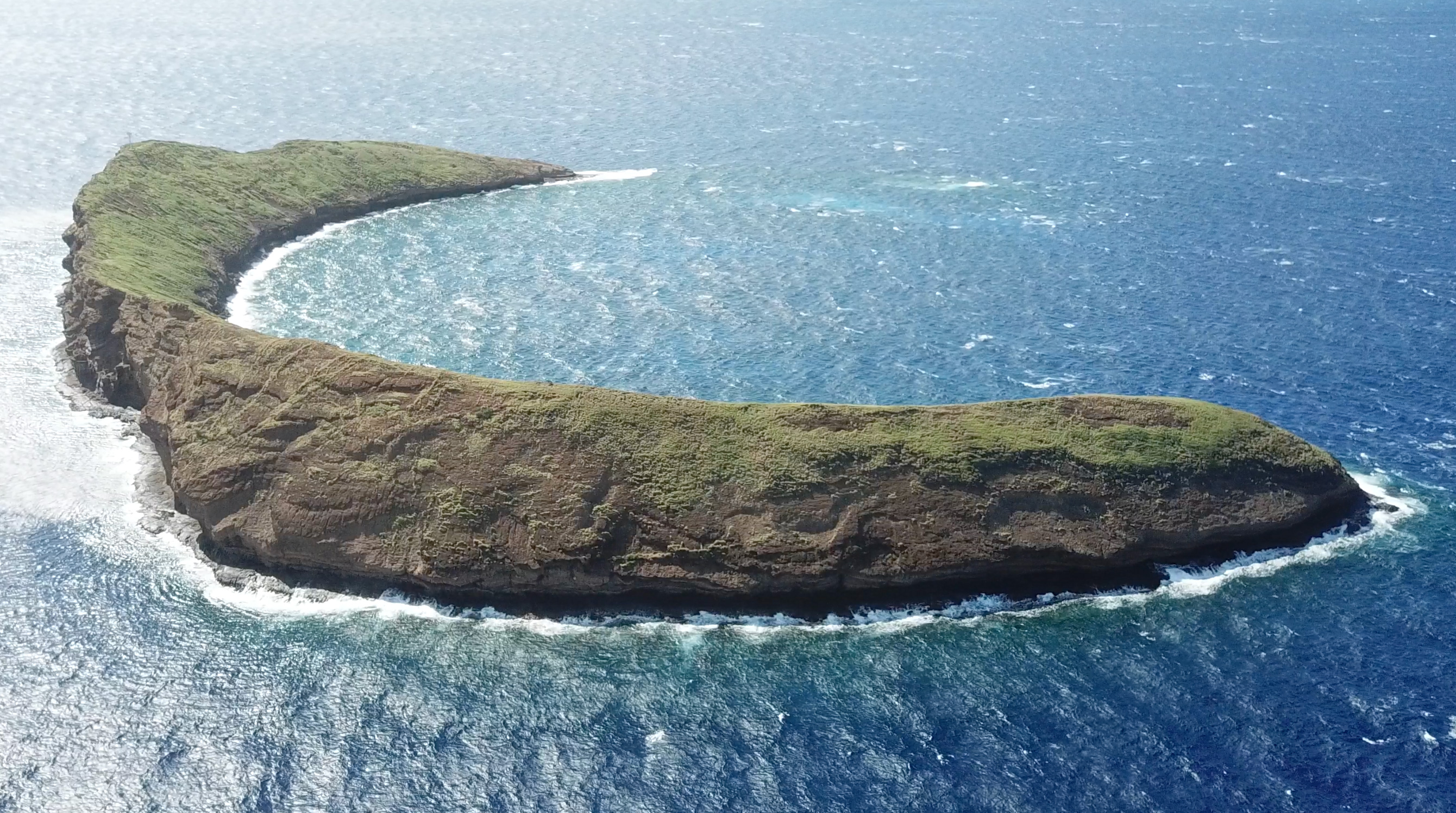 An aerial photo of the north side of Molokini.